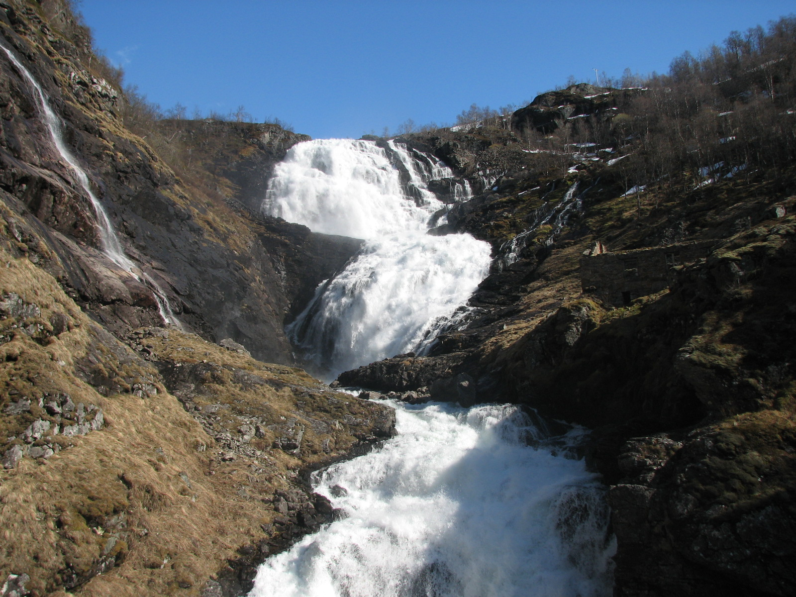 Kjosfossen, with a free fall of 93 meters.